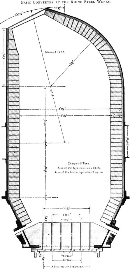 Bricks lining of a basic Bessemer converter.